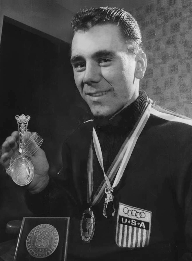 1964 Press Photo Wayne Le Bombard didn't go home empty handed from Olympics